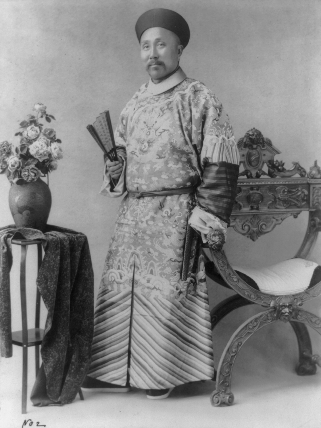 Wu-Ting-Fang - Chinese minister, full-length, standing